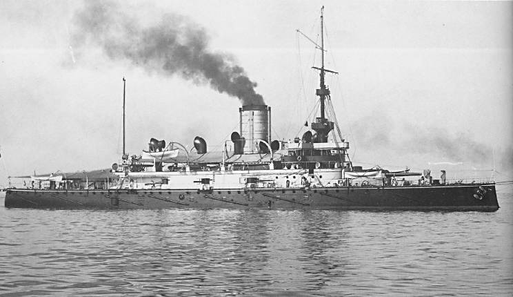 SMS Budapest 1896-1919